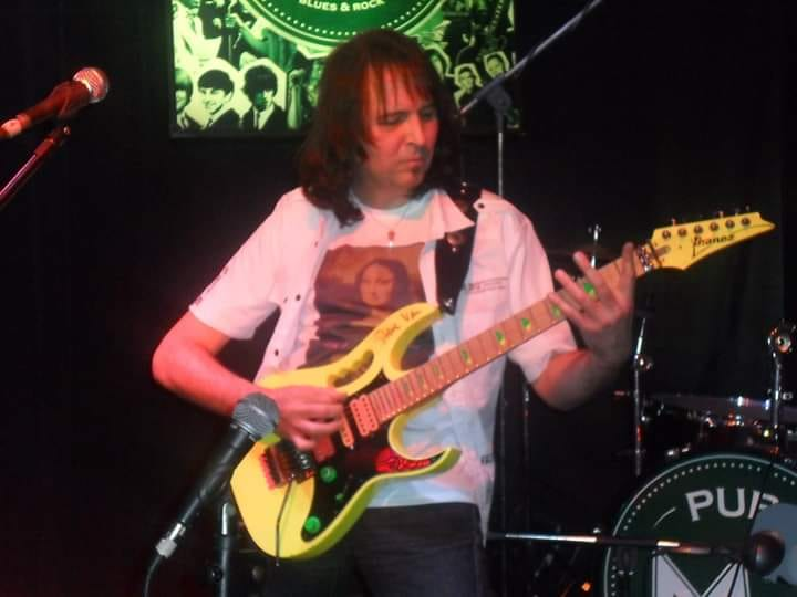 Daniel Telis in instrumental show in Buenos Aires